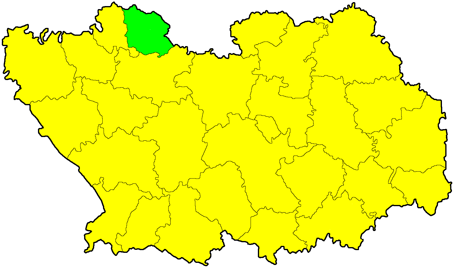 Map of Narovchatsky District, Russia